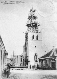 Postcard showing the reconstruction of a damaged church in Nijlen, Antwerp, Belgium, after World War I.